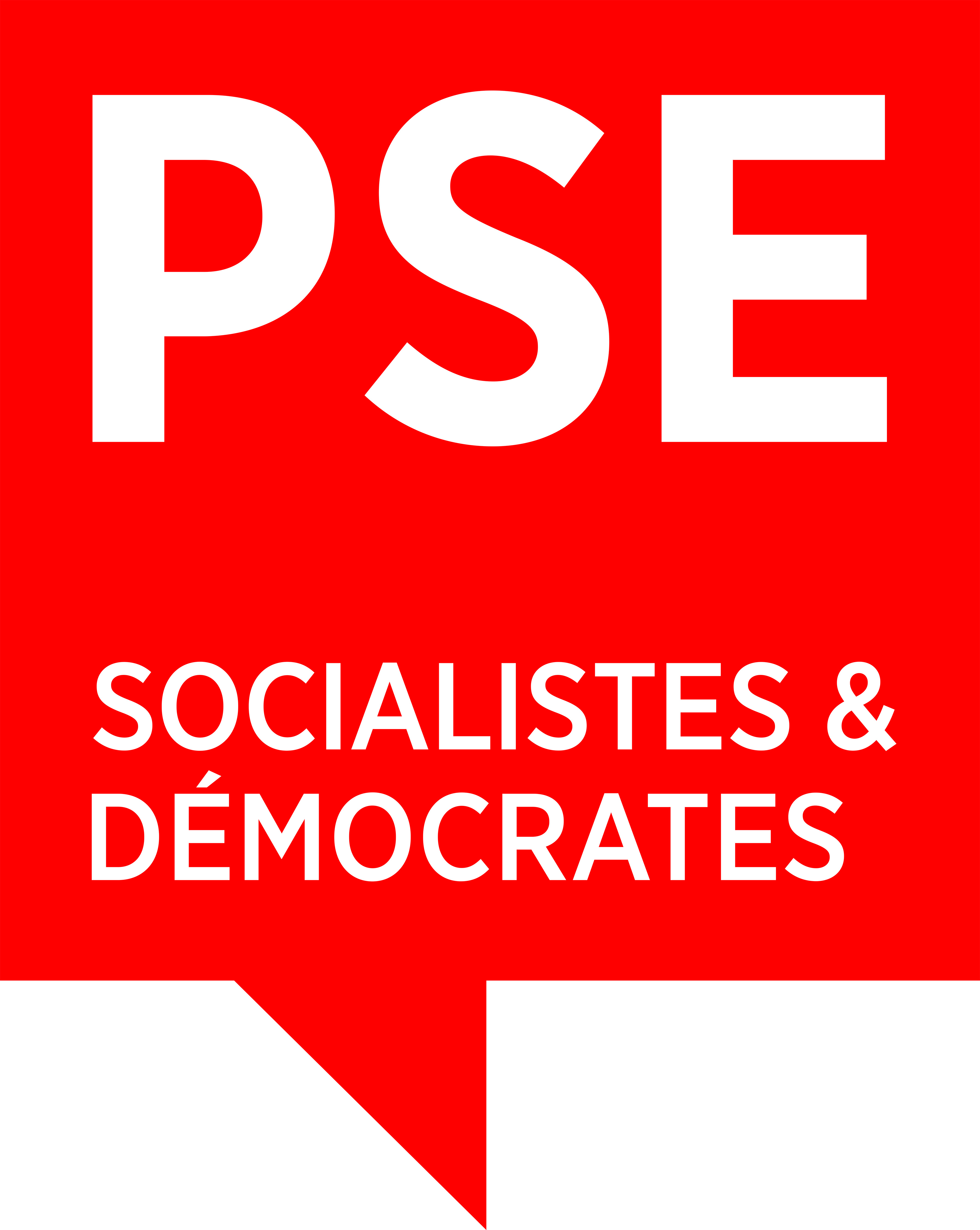 Official logo in French of the Party of European Socialists